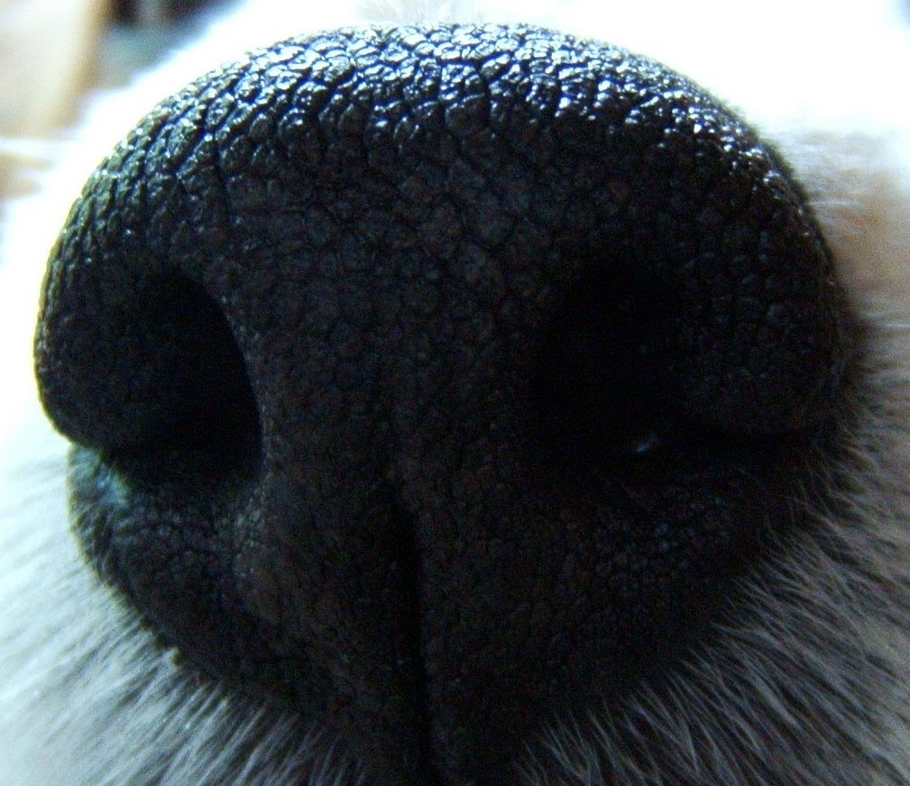 Macro-photografy of a dog's nose